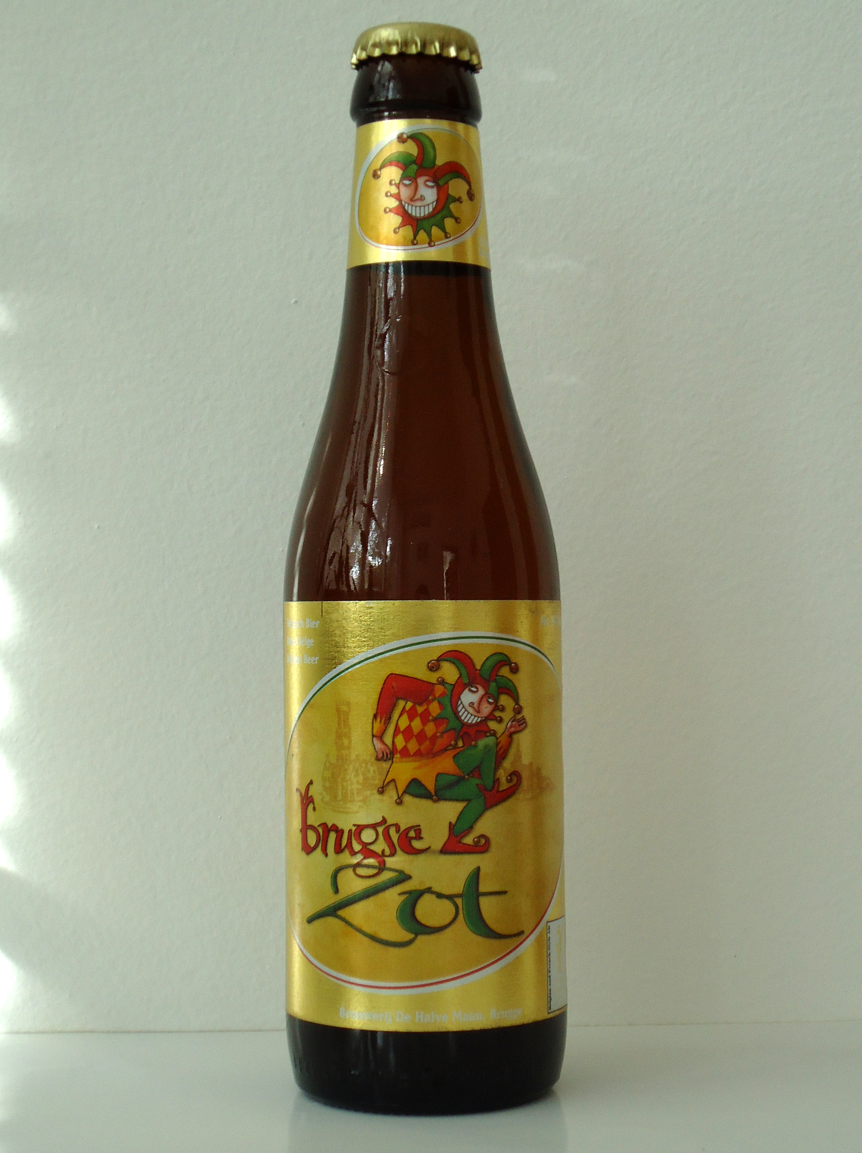 Brugse Zot beer